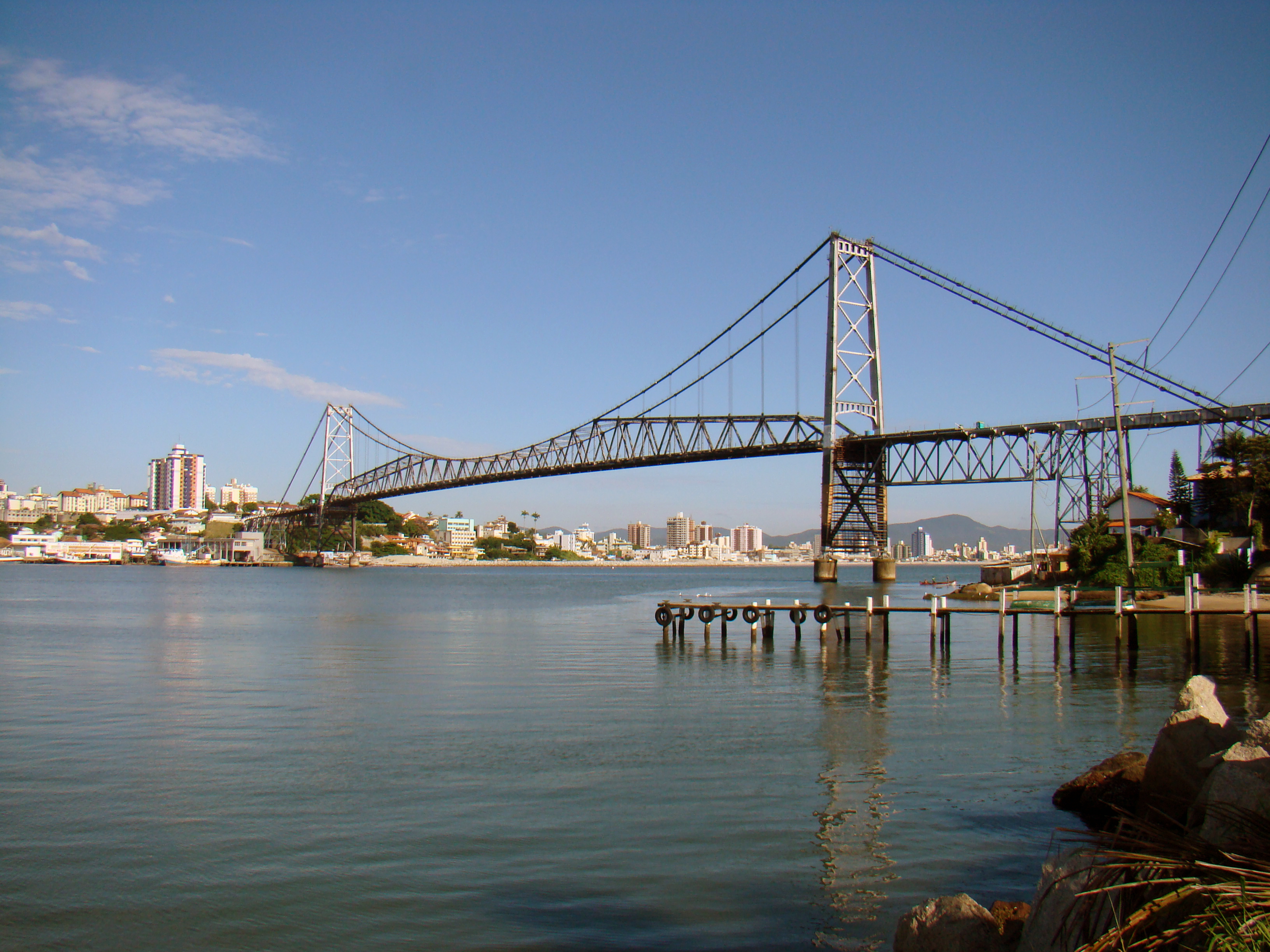 Hercílio Luz Bridge, Florianópolis, Brazil